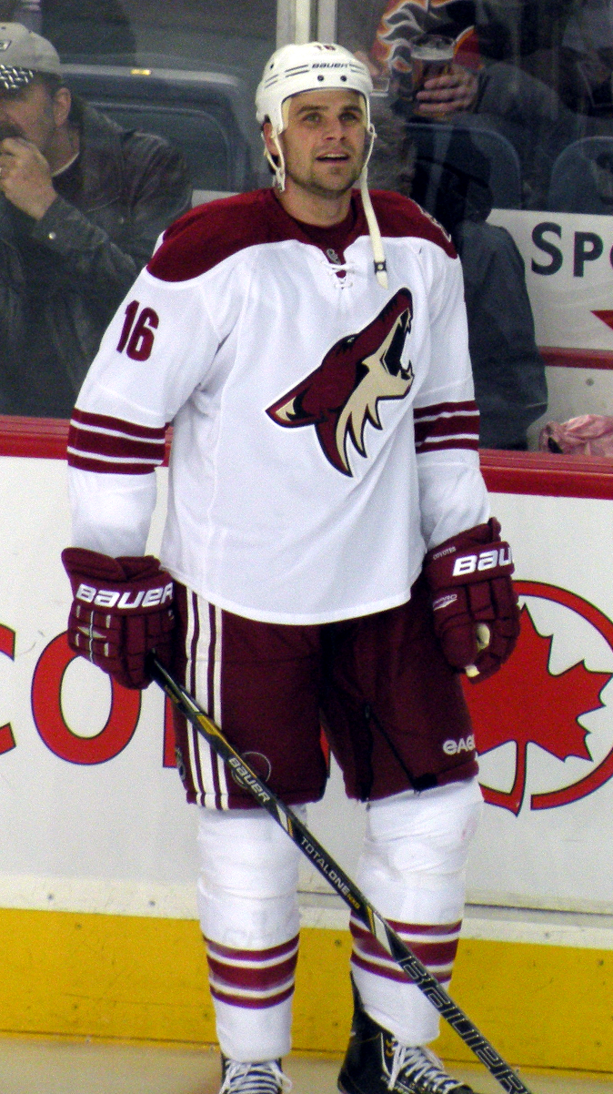 Phoenix Coyotes defenceman Rostislav Klesla prior to a National Hockey League game against the Calgary Flames